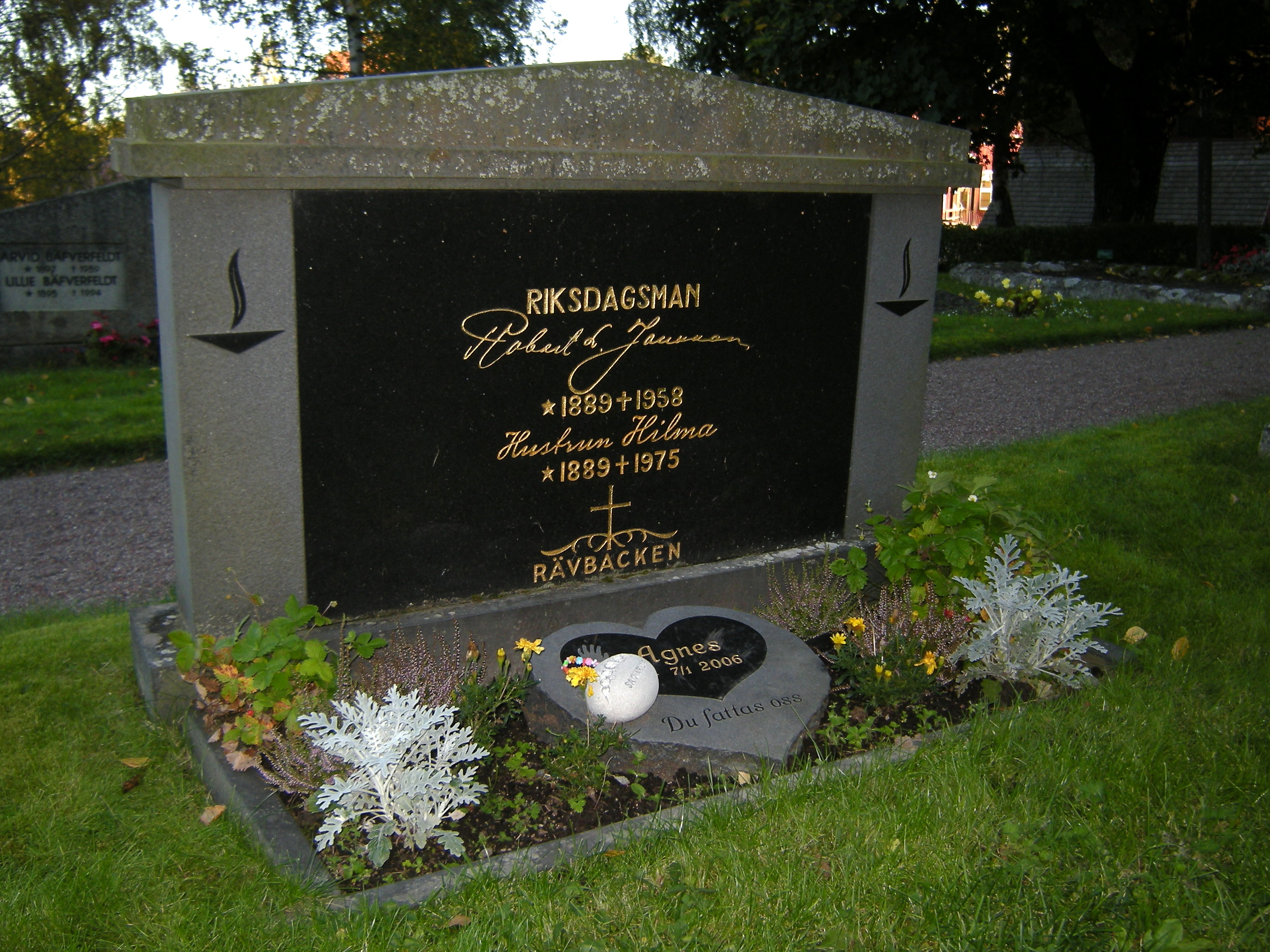 grave of Robert Jansson in Aspeboda